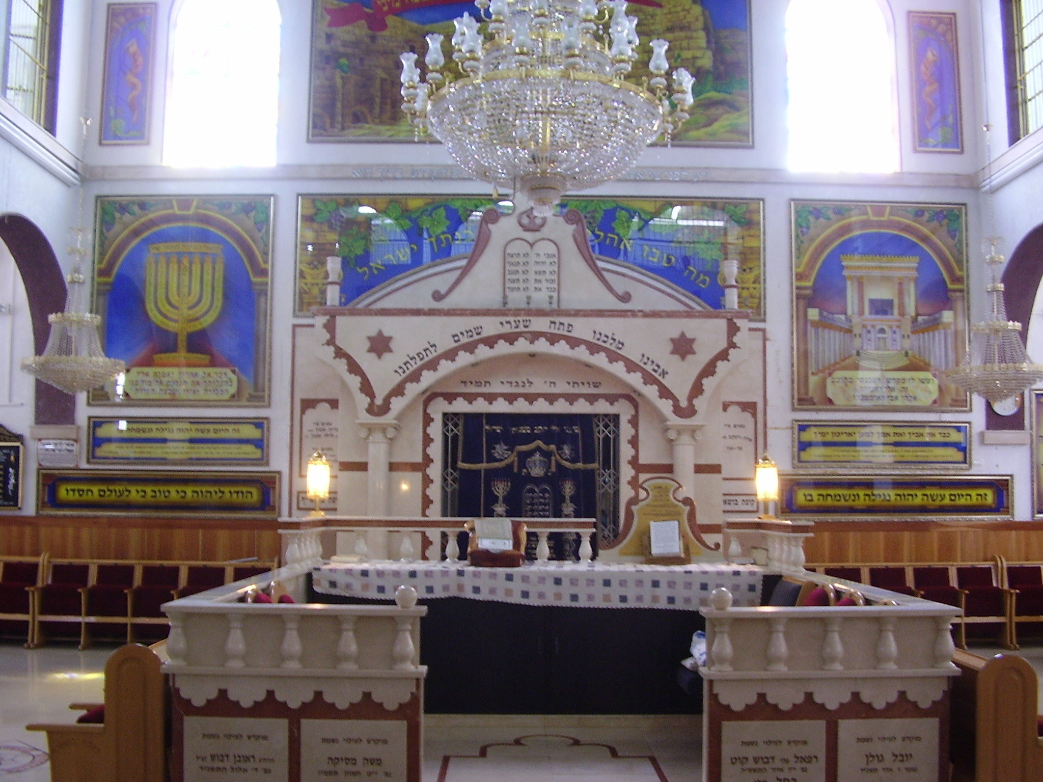 bushayef synagogue in moshav zeitan